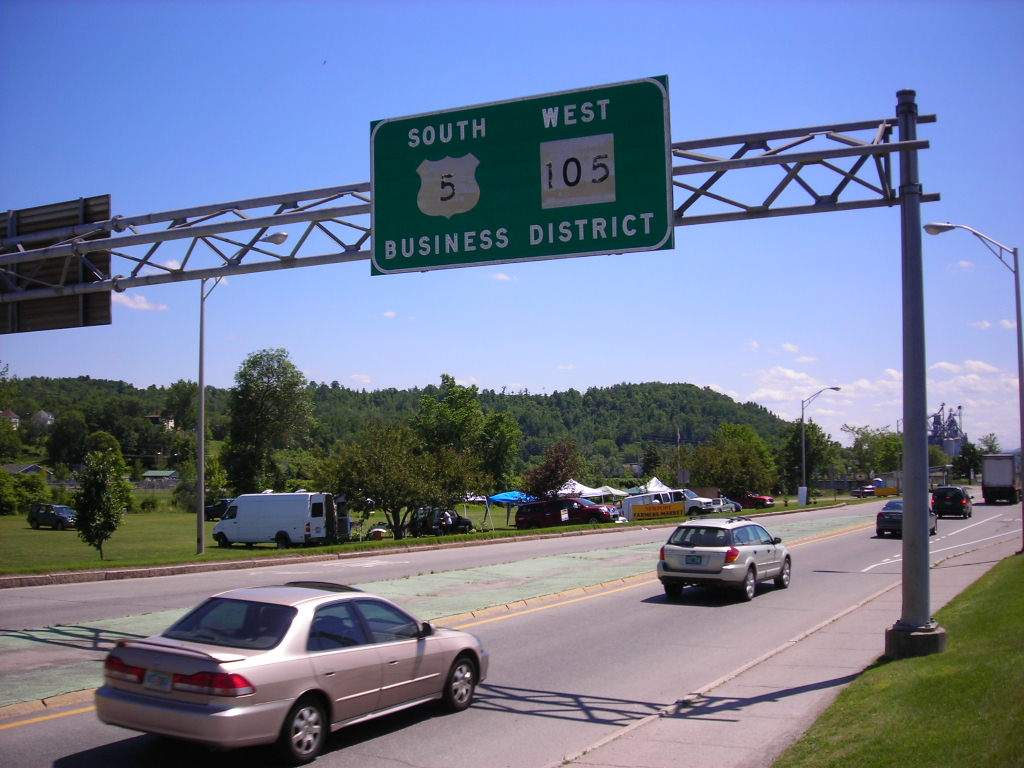 Vermont State Route 105 and U.S. Route 5 in Newport, Vermont.